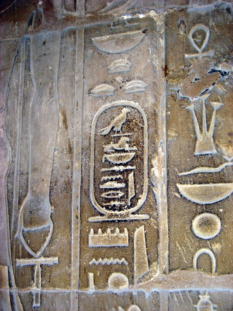 Alexander the Great: (in Egyptian Hieroglyphs): "Lord (basket) of Coronations", "Alexandros"--A-l-ka(k)-s-i(a)-n-d(t)-r-sAlexander the Great